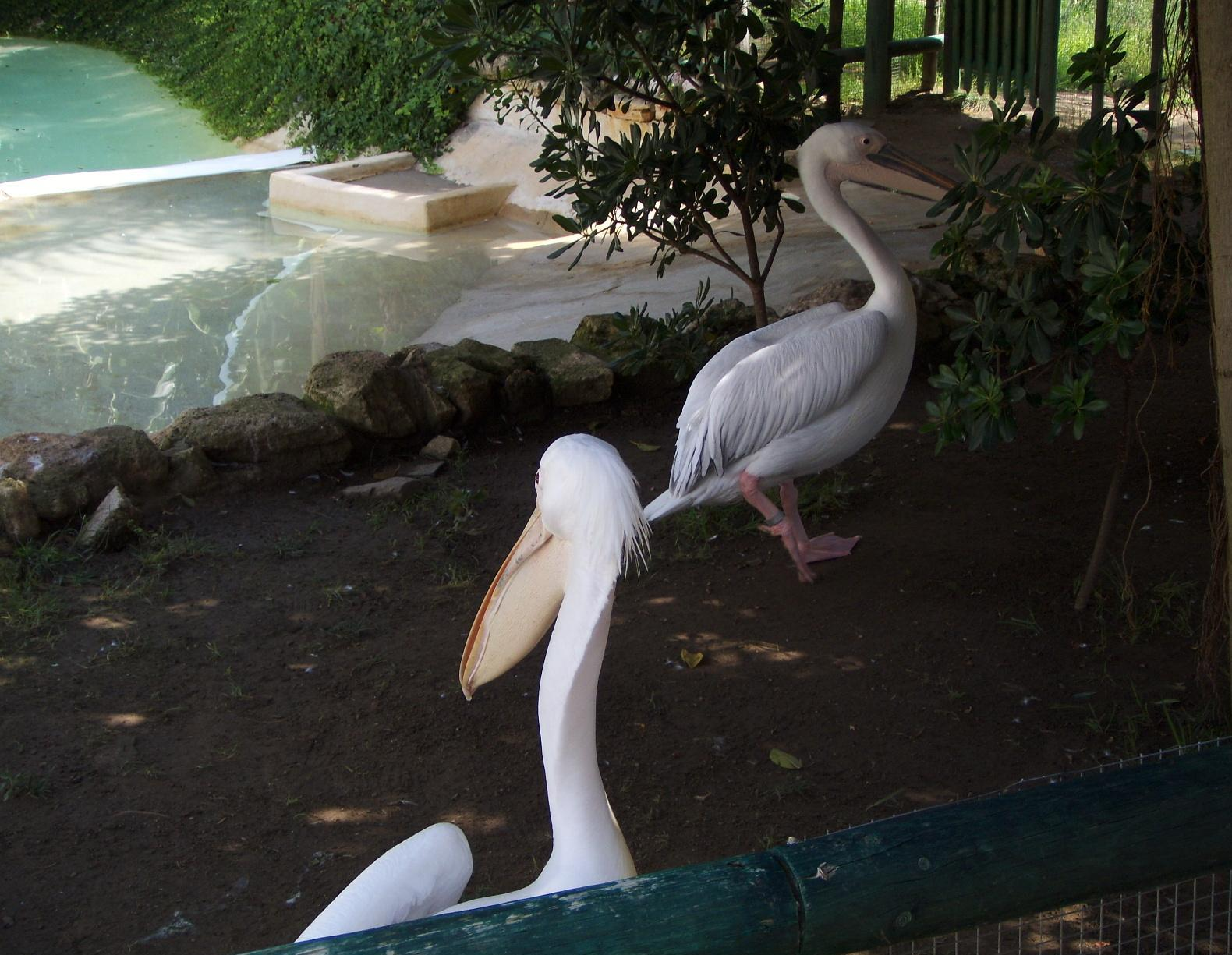 Great White Pelicans in bird enclosure in Selwo Marina, Benalmadena, Spain